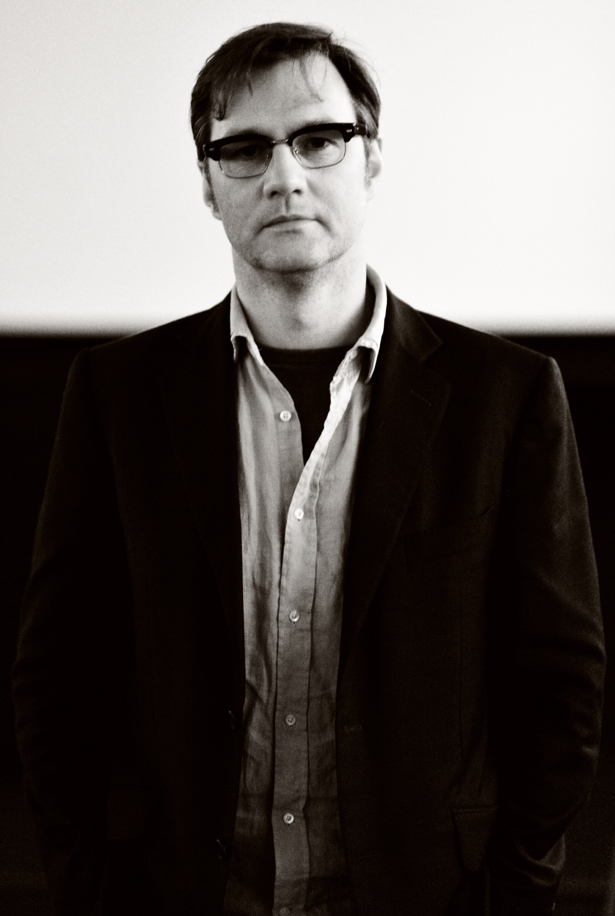 David Morrissey at Showroom Cinema in Sheffield in June 2010.